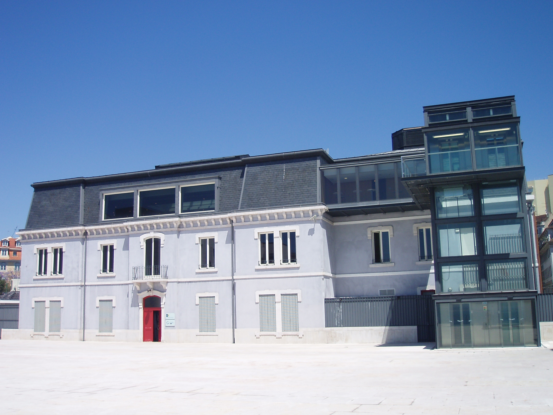 One of the two European Monitoring Centre for Drugs and Drug Addiction (EMCDDA) buildings in Lisbon, Portugal.